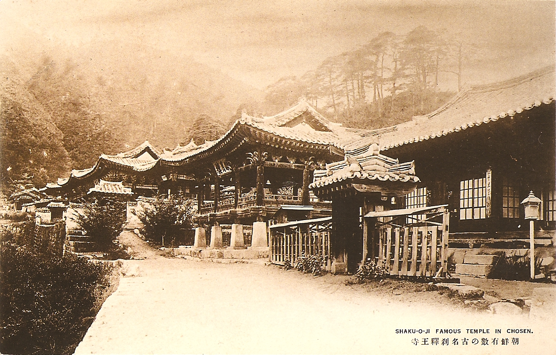 Shakuō-ji (Sogwang-sa) Buddhist temple and garden, Anbyon, Korea (North). During Japanese rule of Colonial Korea period (1910-1945).